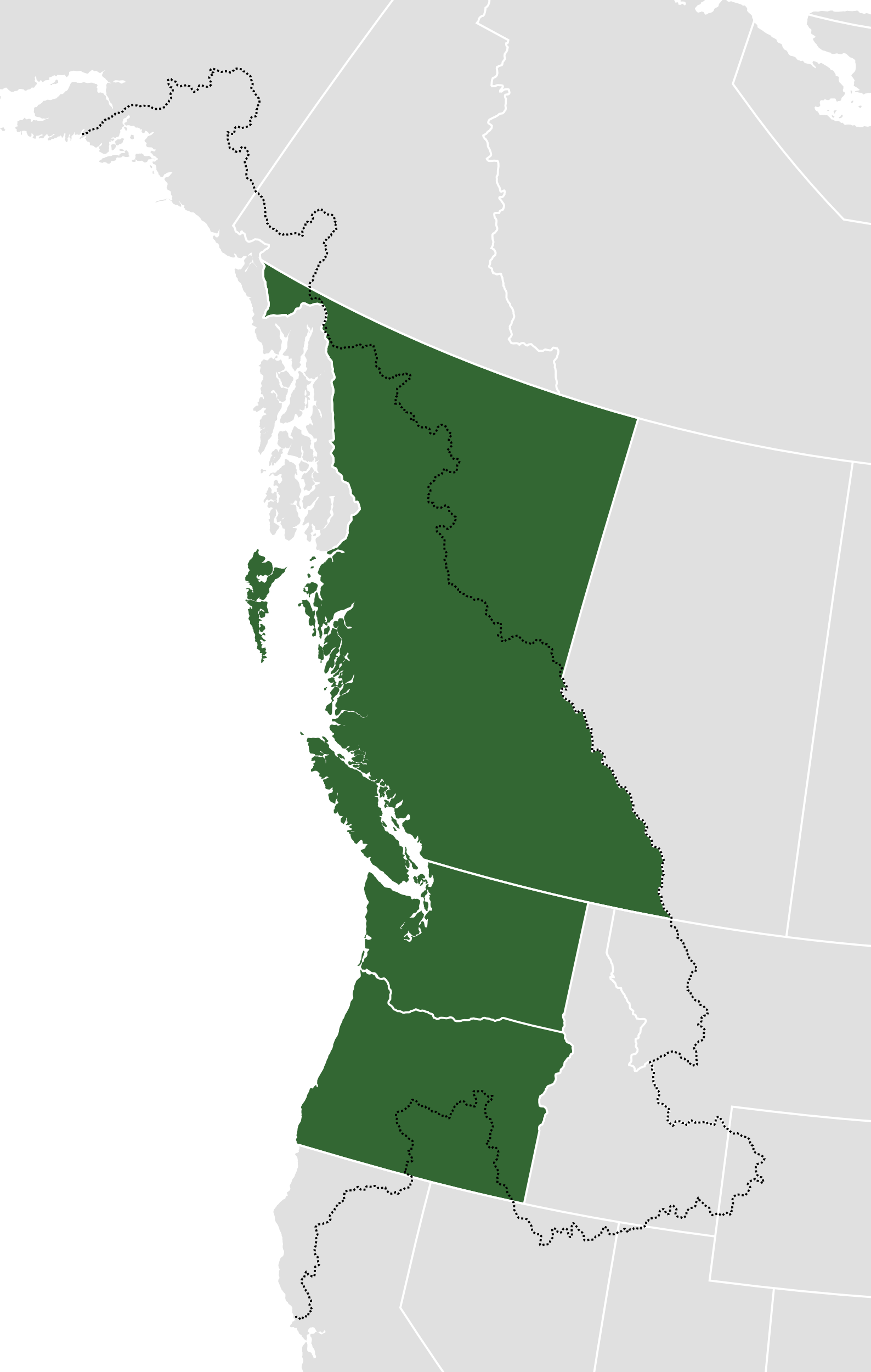 A map showing the two definitions of the proposed "Republic of Cascadia." Green shows the American states of Oregon and Washington; and the Canadian province of British Columbia (which make up the standard definition). The black-dotted line marks the border of the Cascadia bioregion (which is also mentioned as a border).